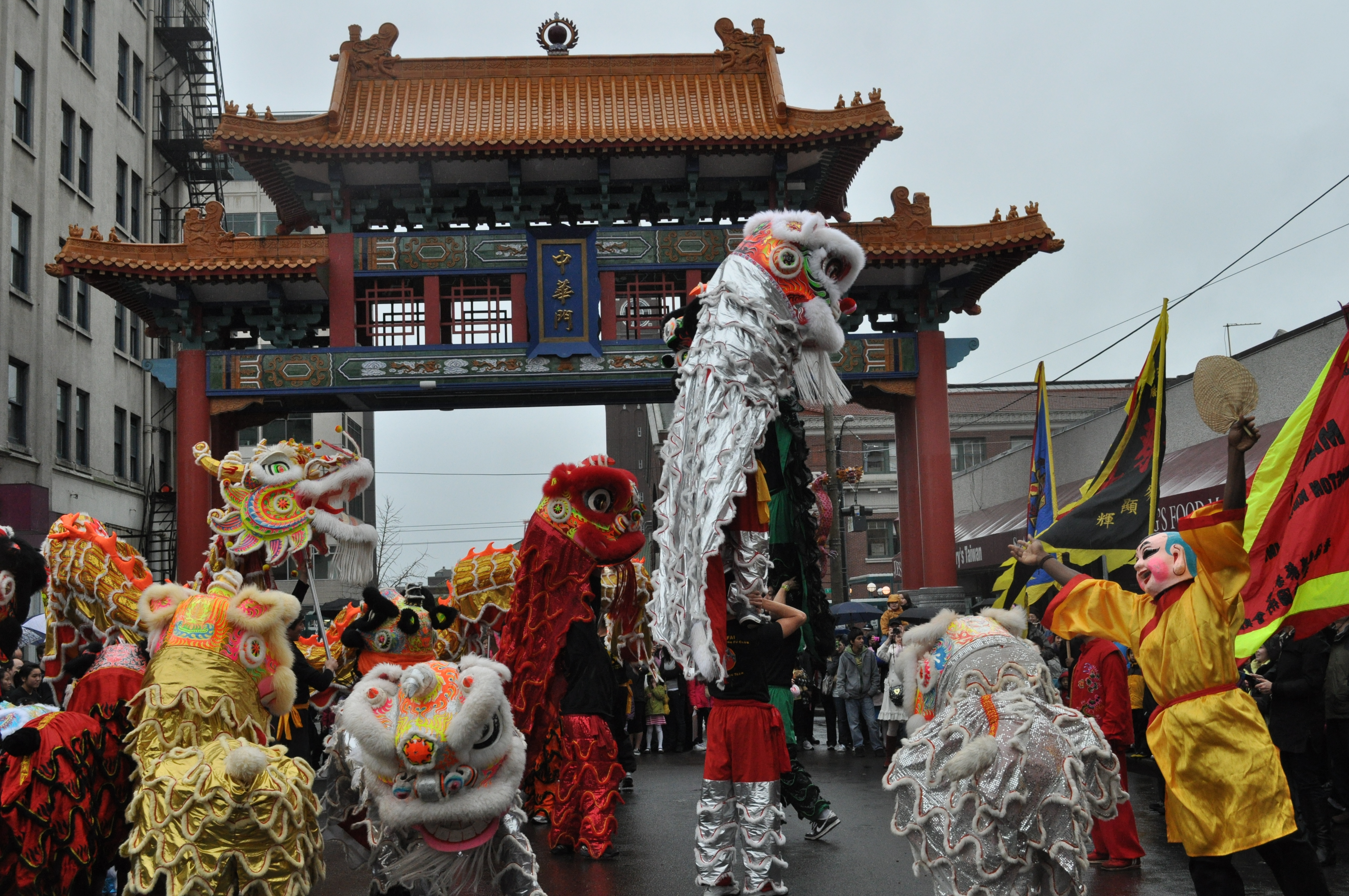 Lion dancers at Historic Chinatown Gate, Chinese New Year, Hing Hay Park, Seattle, Washington.